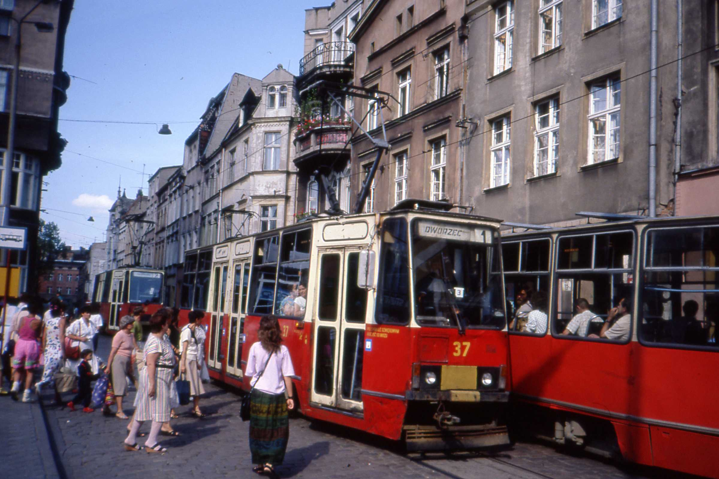 Rush hour crowds in Grudziądz and a flurry of Konstal 805N trams to greet the travellers. Line 1 runs to the main railway station, Line 2, behind, to the southern suburbs at Ulice Torunska. Tram nr 37 was new in 1980, the first Konstal 805N in the town.